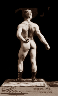 Portrait of strongman Eugen Sandow (1867-1925) in 1893.